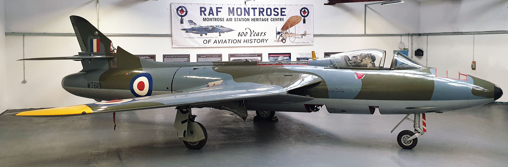 Hawker Hunter F.1 WT619 at Montrose Air Station Heritage Centre on loan from the RAF Museum.